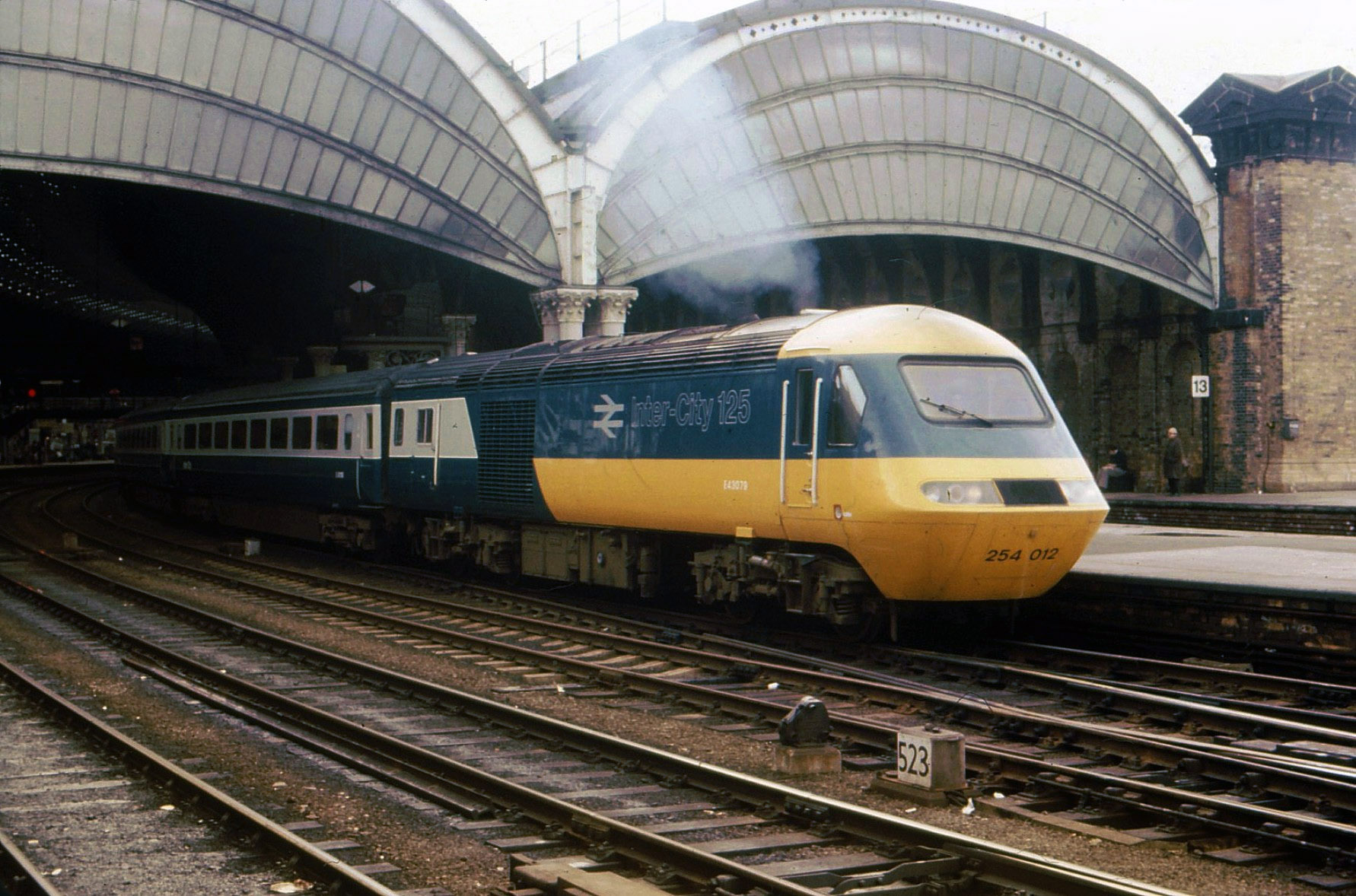 British Rail HST unit 254012 stands at York railway station.